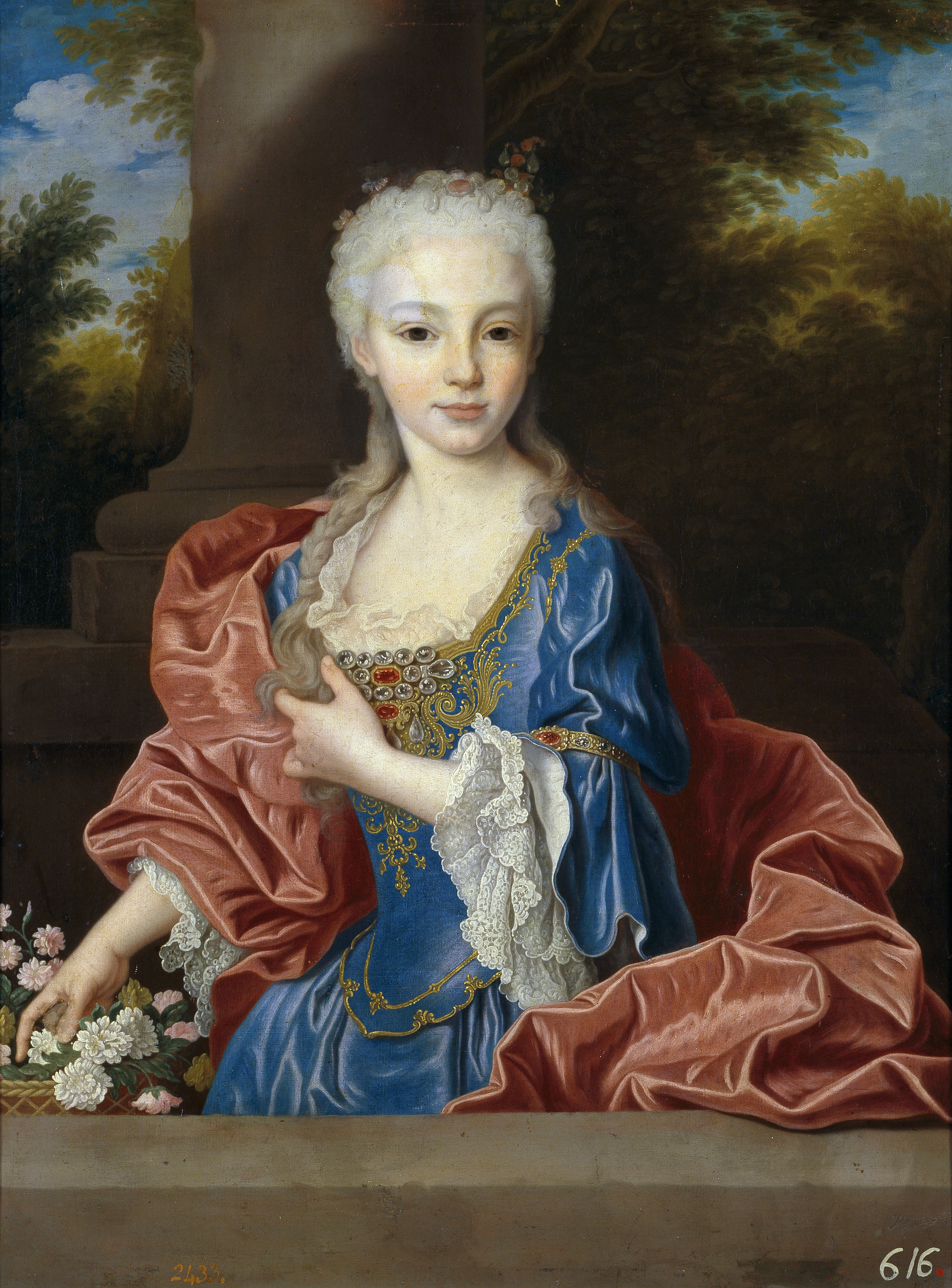 The Infanta Mariana Victoria of Spain (1718-1781), after having returned from France in March 1725, and before marrying the Portuguese Prince of Brazil in January 1729.